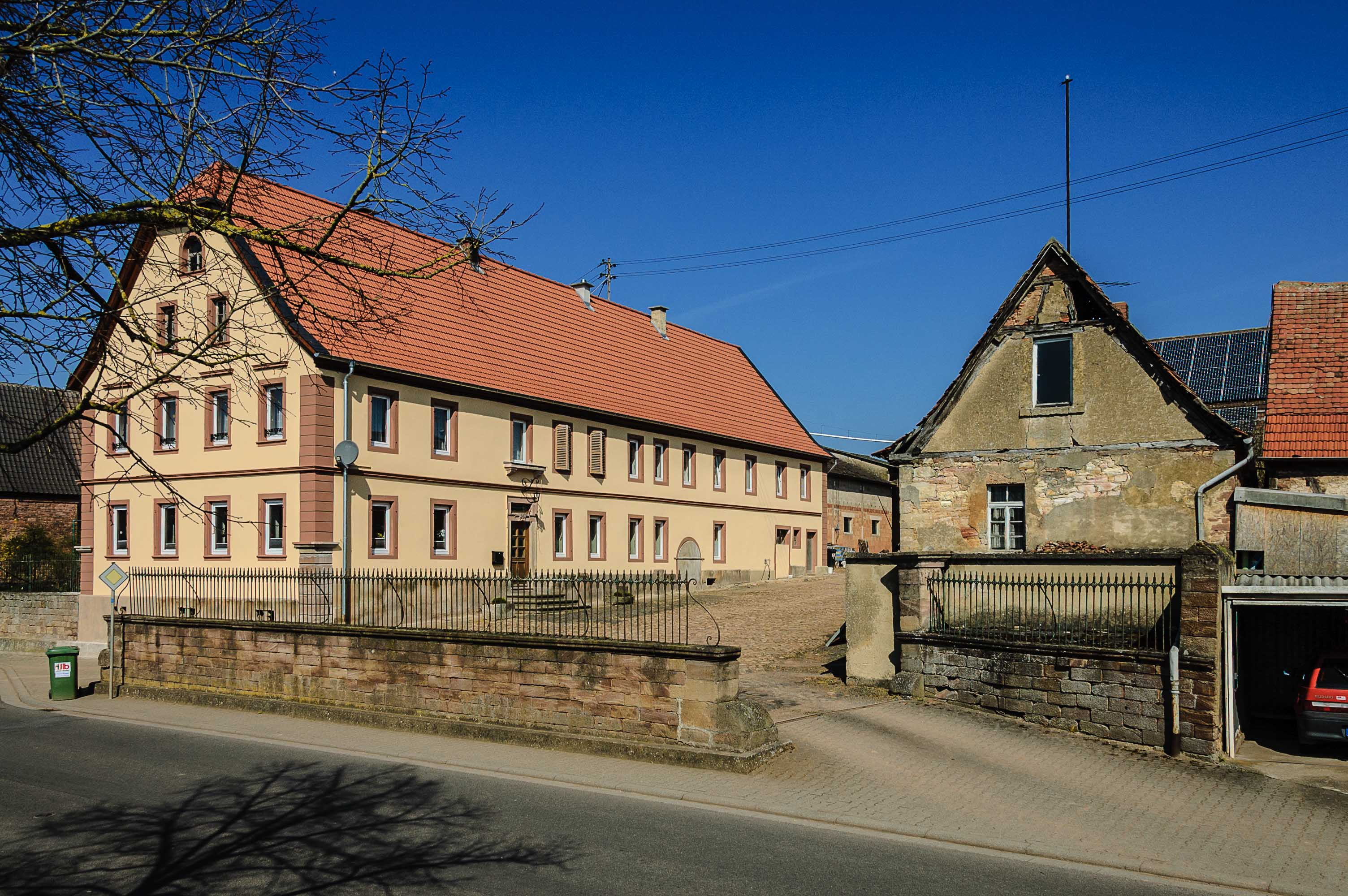 Dreiseithof Standenbühl c